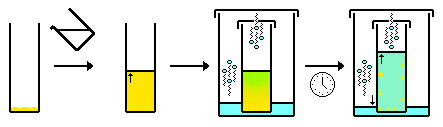 X-ray_crystals_-_slow_gas_diffusion_2_solvent: Solvent added (clear) to compound (orange) in first vessel to give compound solution (orange) First vessel is placed in a second vessel containing second solvent (blue). The second vessel is sealed, the first vessel is also sealed, although a small hole in the first vessel is present. This hole allows volatile solvent vapour (blue) to slowly evaporate from second vessel and condensate (that is infuse) into the first vessel, to give a mixed solvent system (green) Overtime this gives crystals (orange) and a non-saturated mixed solvent system (green-blue). i.e. → Solvent added (clear) to compound (orange) in first vessel to give compound solution (orange) → First vessel is placed in a second vessel contain second solvent (blue). The second vessel is sealed, the first vessel is also sealed, although a small hole in the first vessel is present. This hole allows volatile solvent vapour (blue) to slowly evaporate from second vessel and condensate (that is infuse) into the first vessel, to give a mixed solvent system (green) → Over time this gives crystals (orange) and a non-saturated mixed solvent system (green-blue).